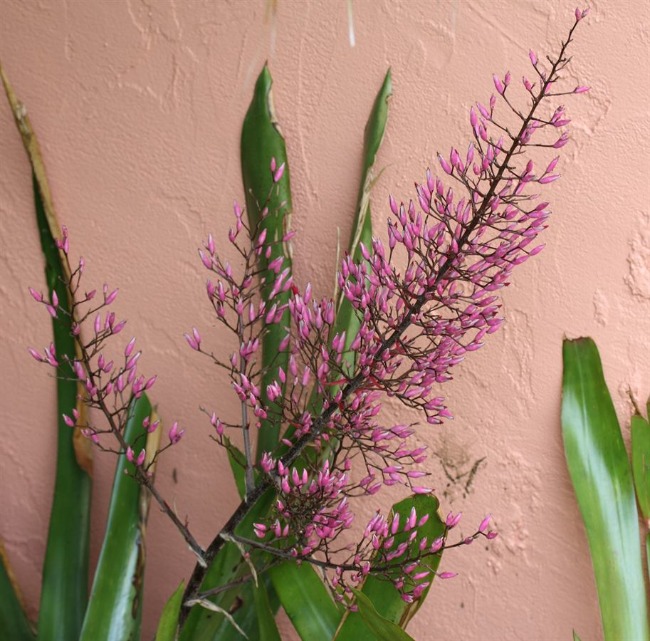 Aechmea spectabilis inflorescence